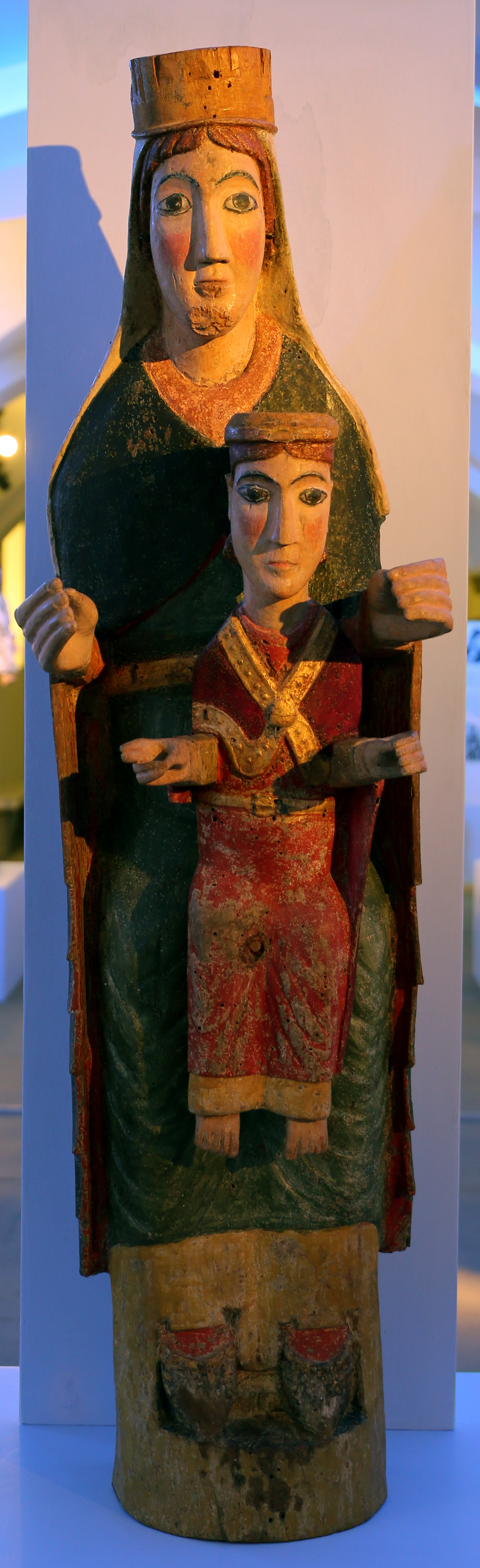 Maternità Divine exhibition in the Famedio di Santa Croce (Florence, 2017)